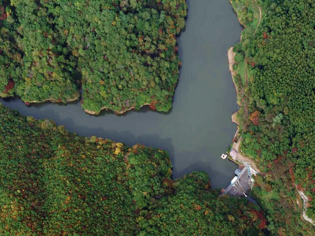 Fujikura Dam (Koori).